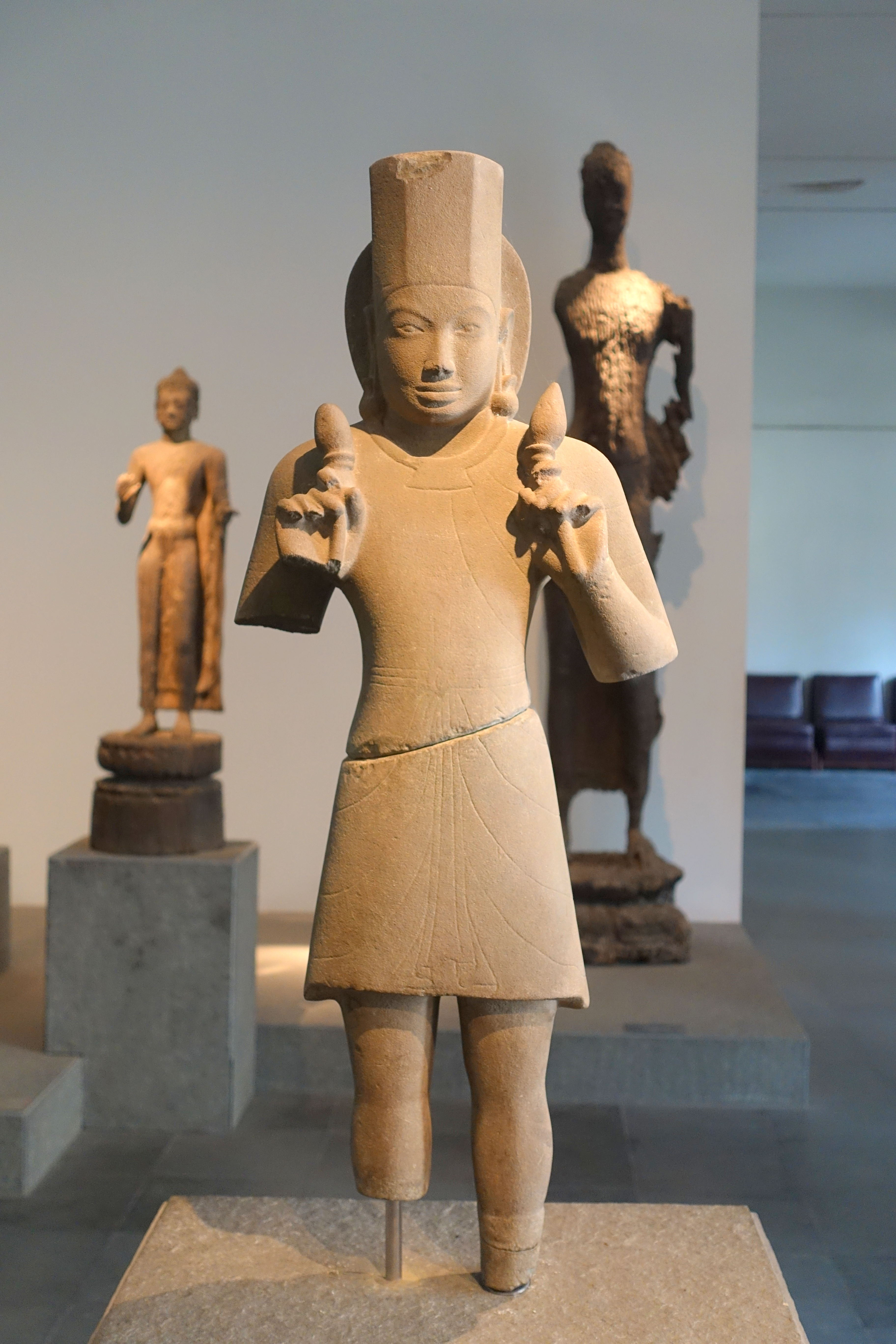 Exhibit in the Museum of Vietnamese History, Ho Chi Minh City, Vietnam. This work is old enough so that it is in the public domain.